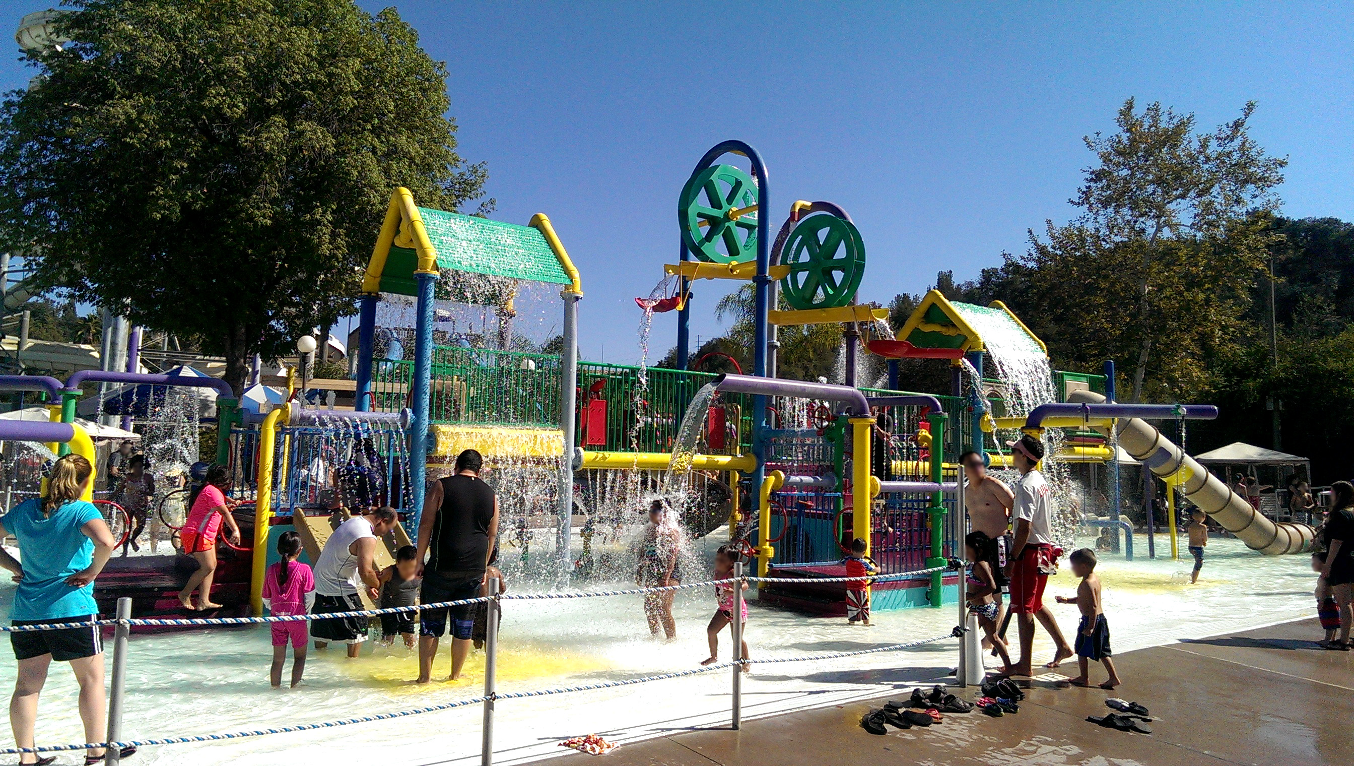 A play area for young children at Raging Waters San Dimas. Faces blurred to protect privacy.